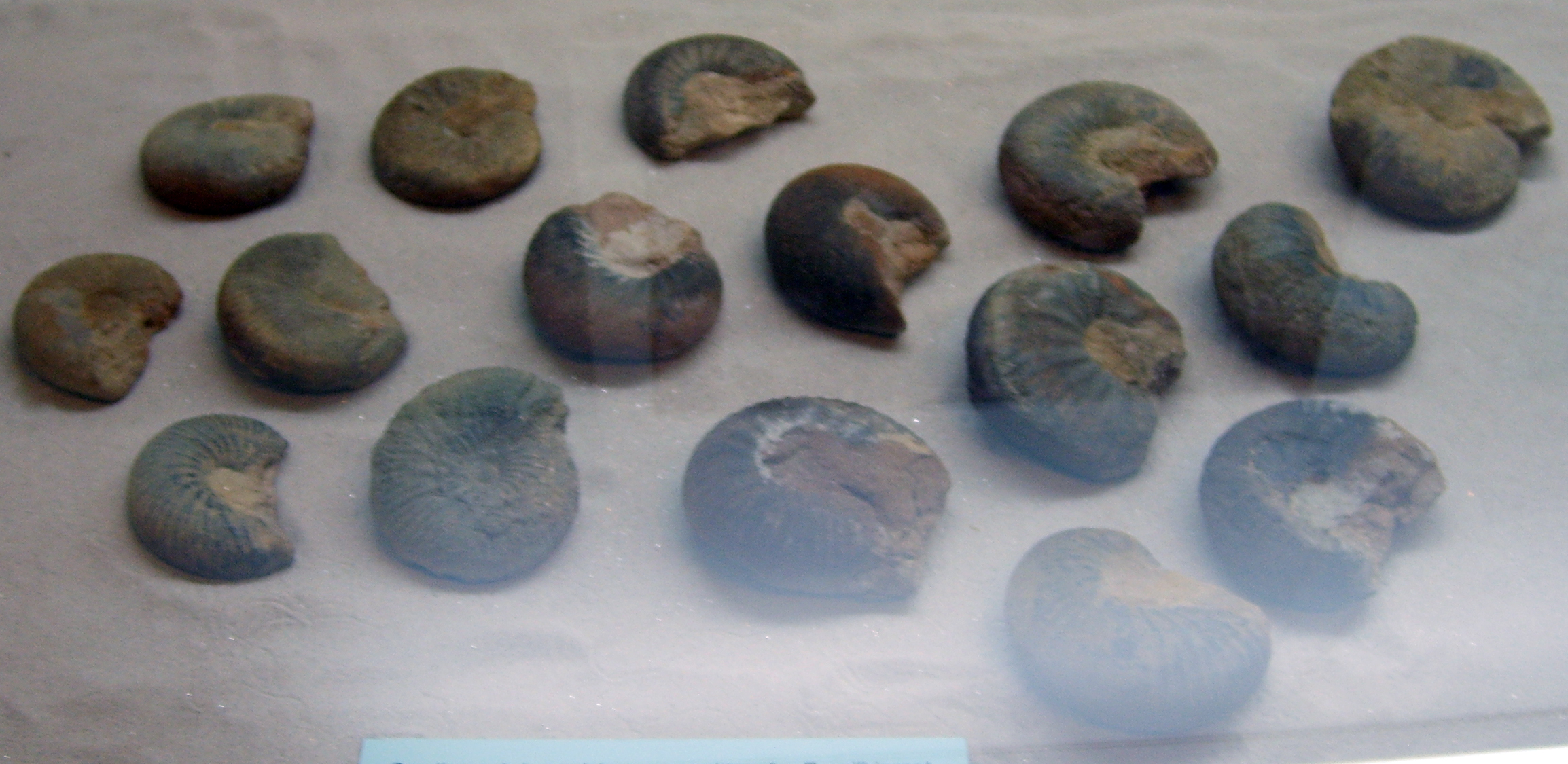 Arcticoceras cranocephaloides fossils at the Geological Museum in Copenhagen.